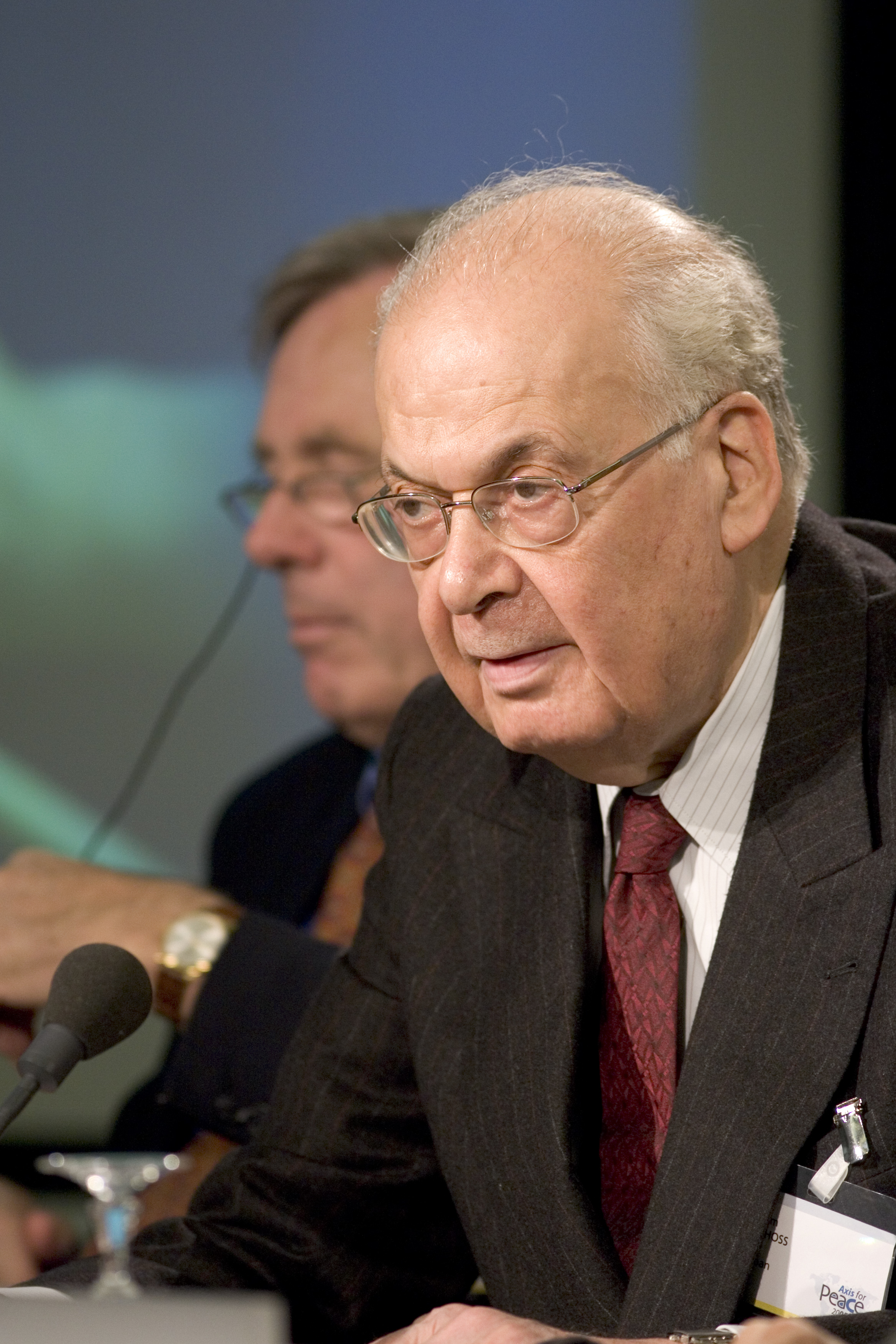 Salim el-Hoss, former Prime Minister of Lebanon, at the 2005 Axis for Peace conference.